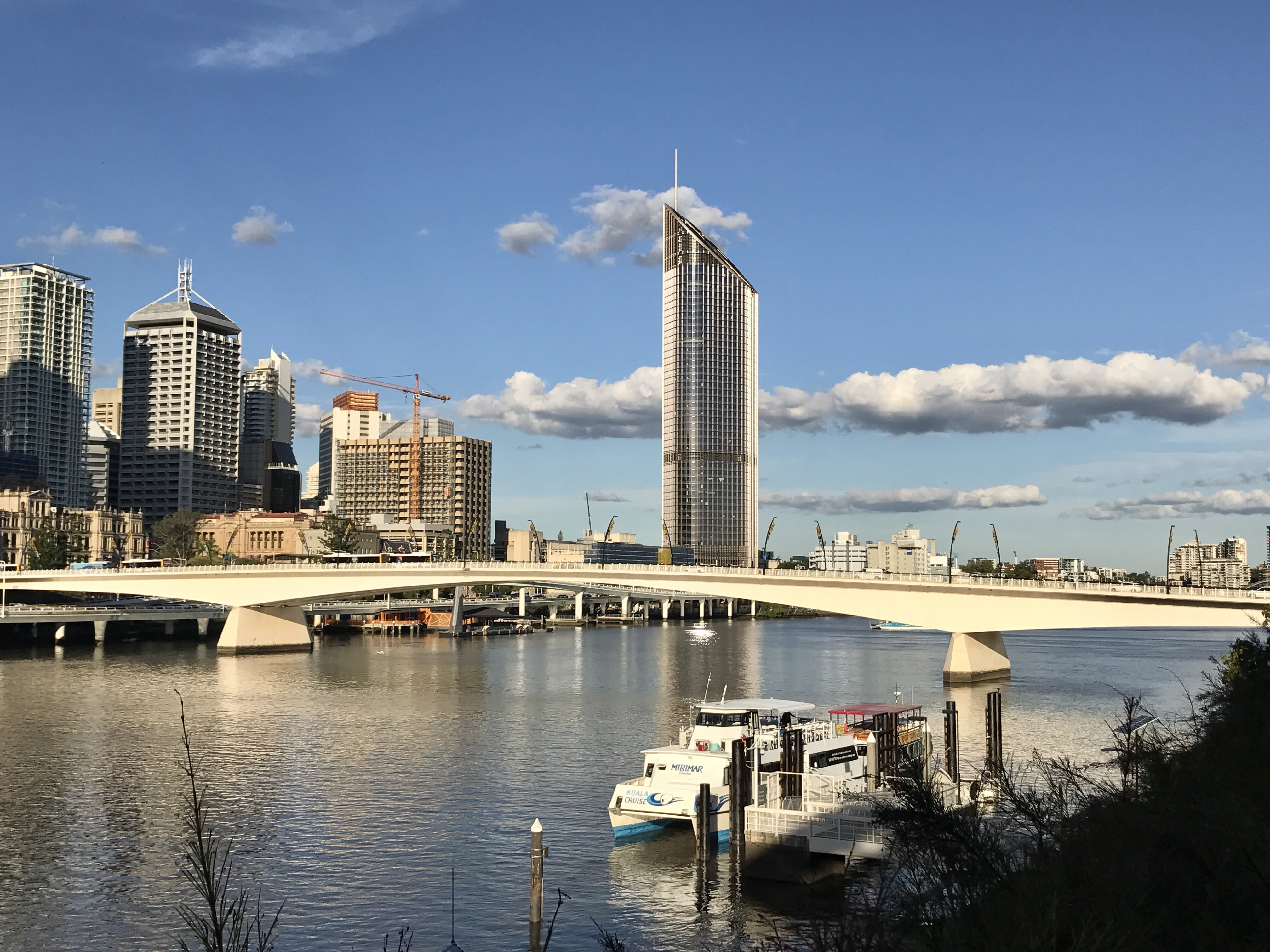 Victoria Bridge, Brisbane and 1 William Street at sunset